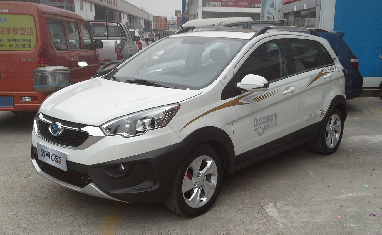 Changhe Q25 photographed in Liuzhou, Guangxi province, China.